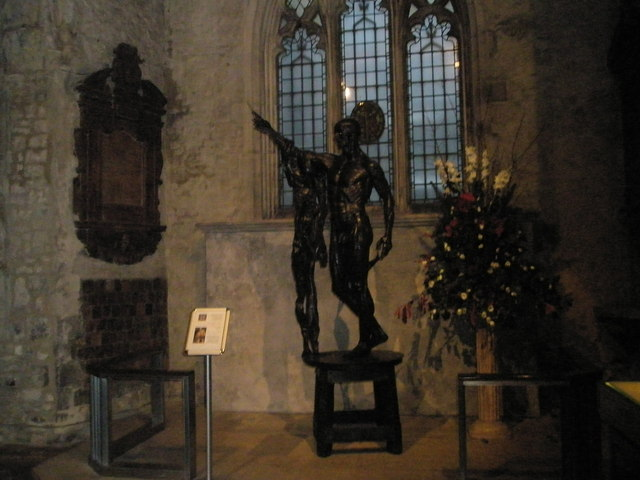 Statue within St Bartholomew the Great Entitled "Exquisite pain" it is by Damien Hirst, and depicts the martyrdom of St Bartholomew.